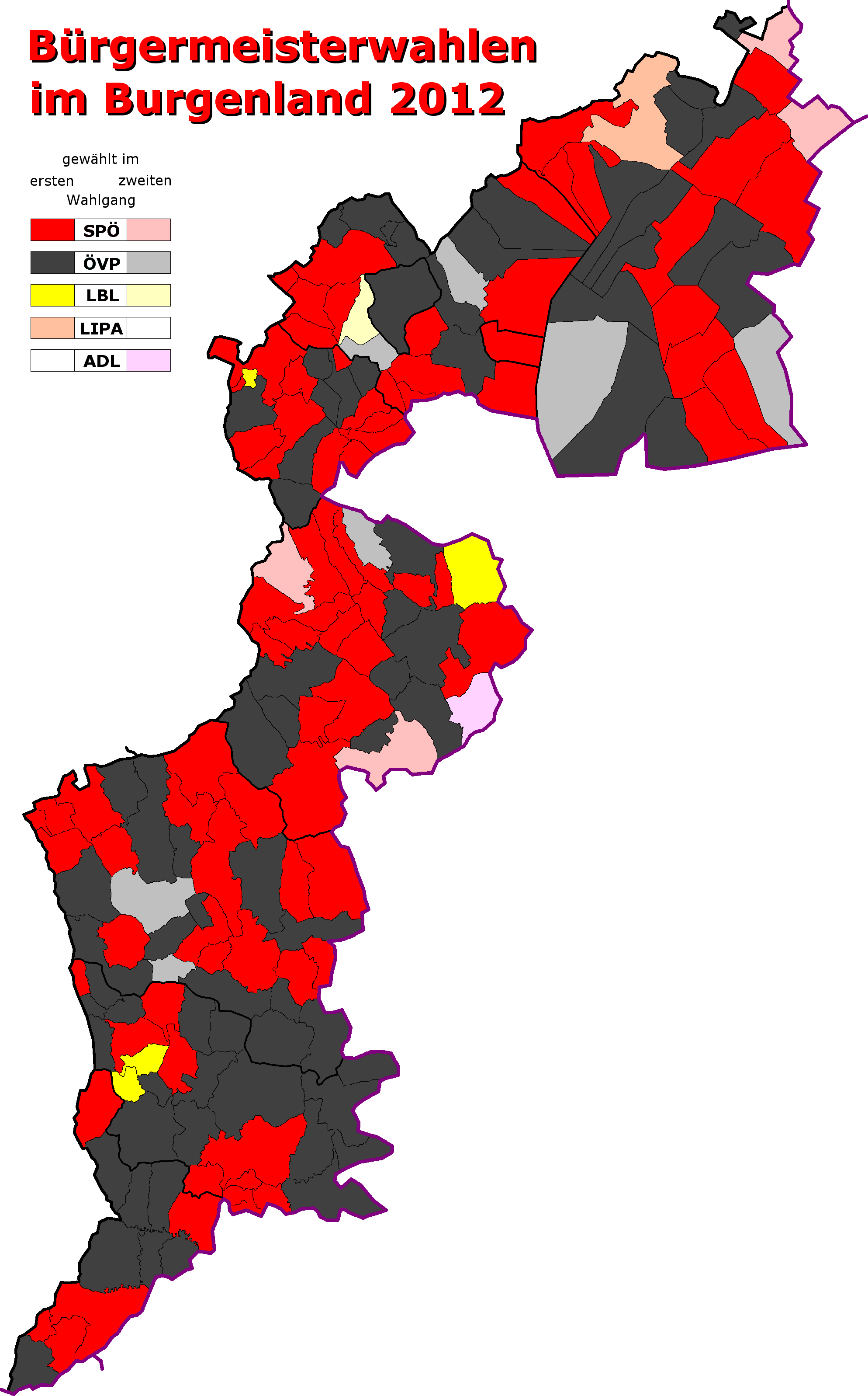 Local elections in Burgenland 2012 - major election results